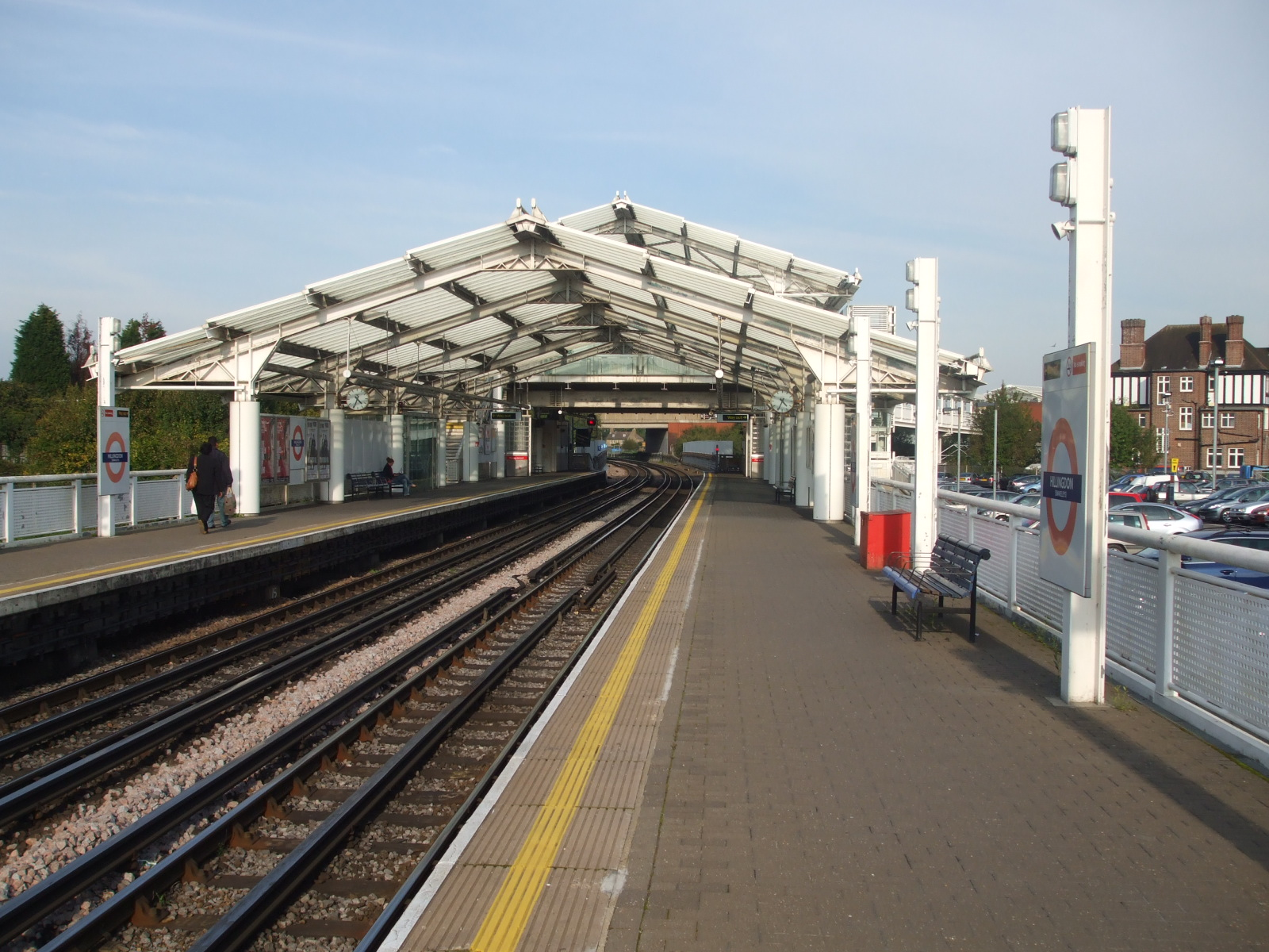 Hillingdon station looking east. The station was relocated further south from its original location, and reopened in 1993.